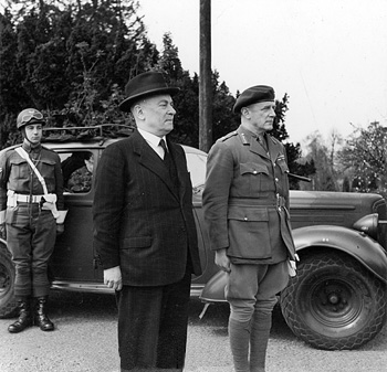 The Belgian Prime Minister Hubert Pierlot (middle) and Major General R G Sturges (right) stand to attention while the Royal Salute is played during Pierlot's visit to the Special Services at Group HQ on 21 April 1944. IWM H 37681. Available online through and obtained there on July 27, 2007. Photographer: Tanner (Lt), War Office official photographer. Called an "official photograph" by the IWM. Hence, the photograph was under Crown Copyright and entered the public domain 50 years after it was taken.